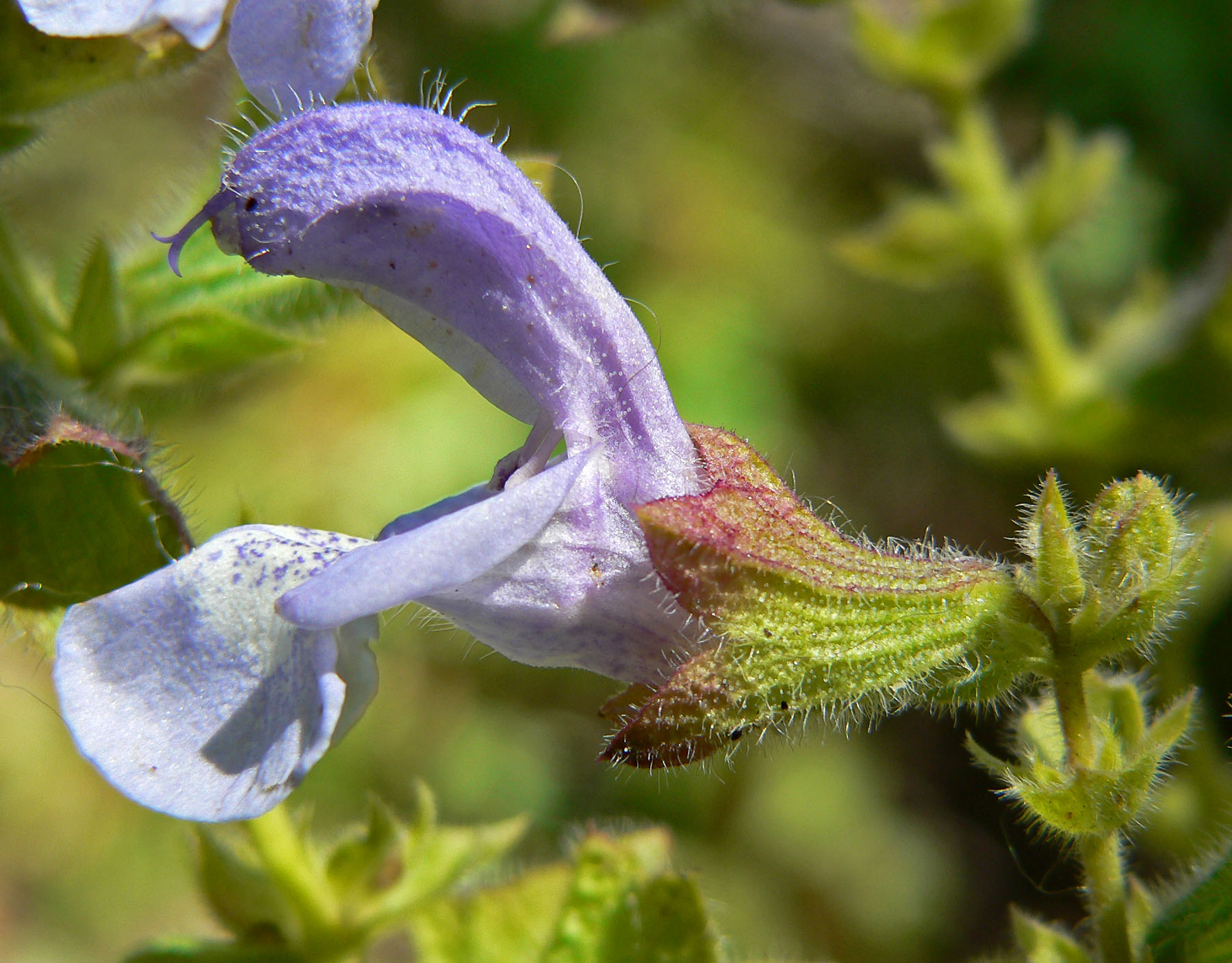 Salvia africana at the University of California Botanical Garden, Berkeley, California